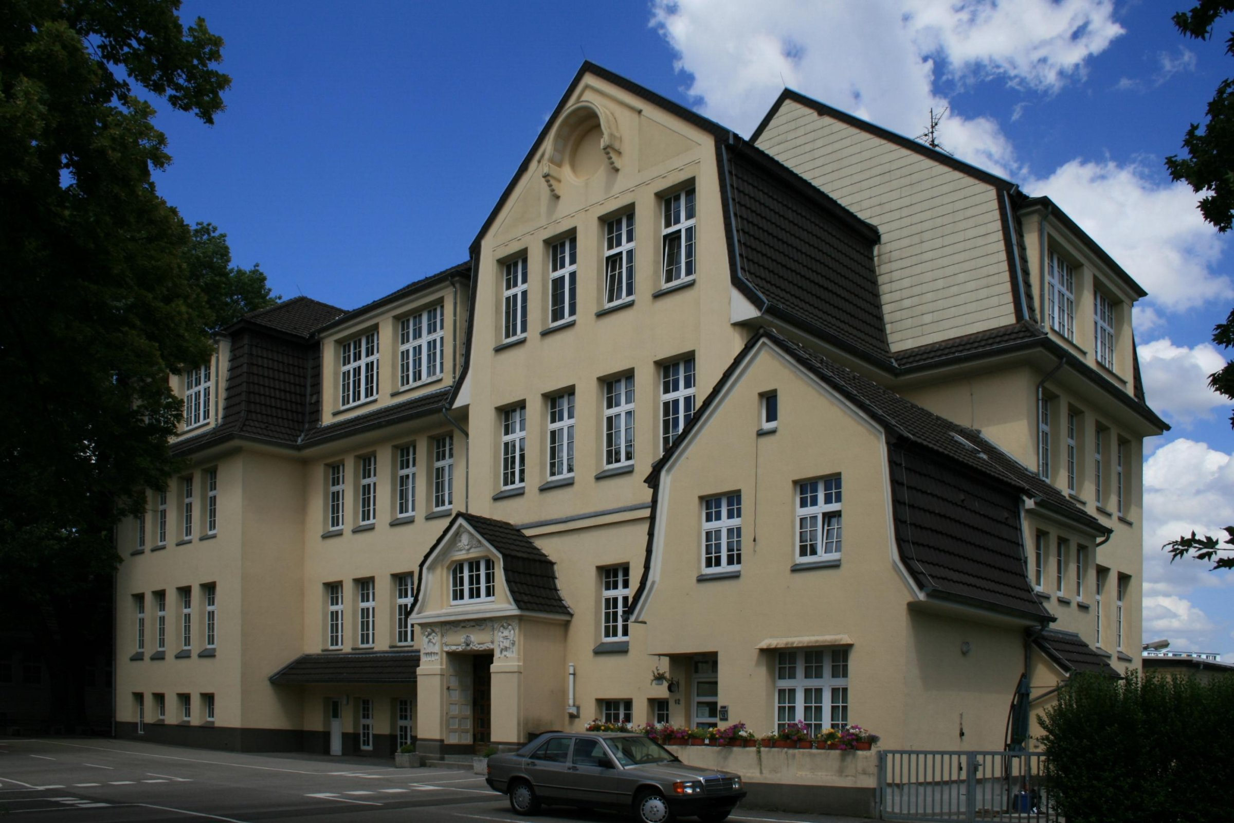 Cultural heritage monument No. D 012 in Mönchengladbach